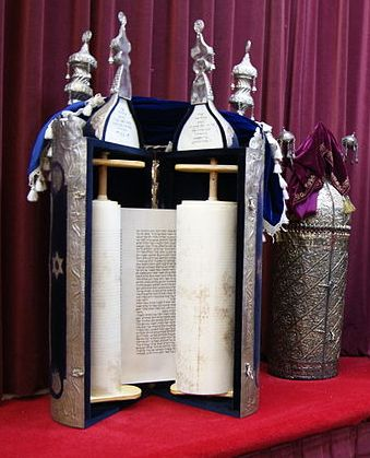 Torah scrolls in the Torah ark of Chesed-El Synagogue, Singapore.